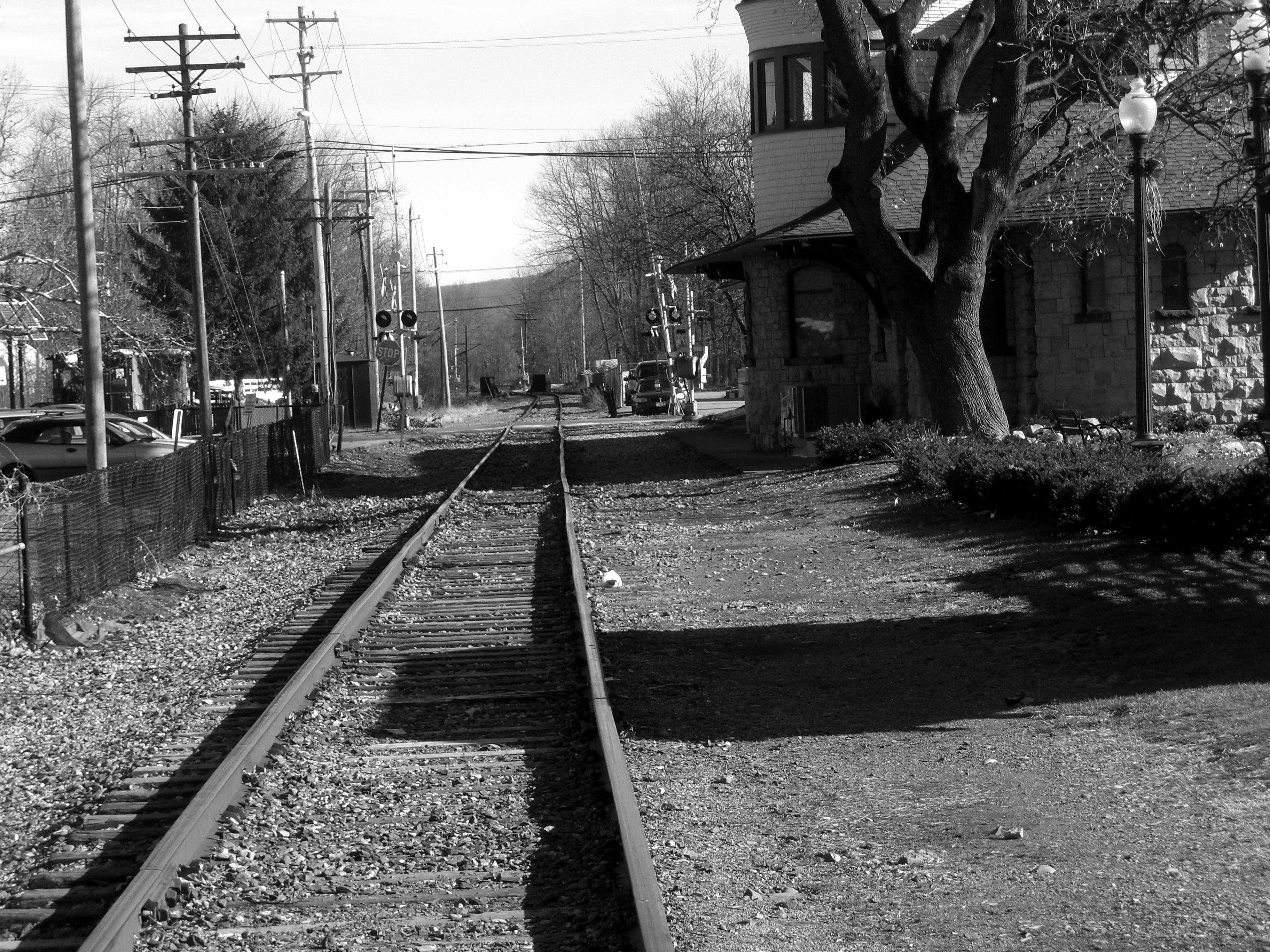 The old warwick train station